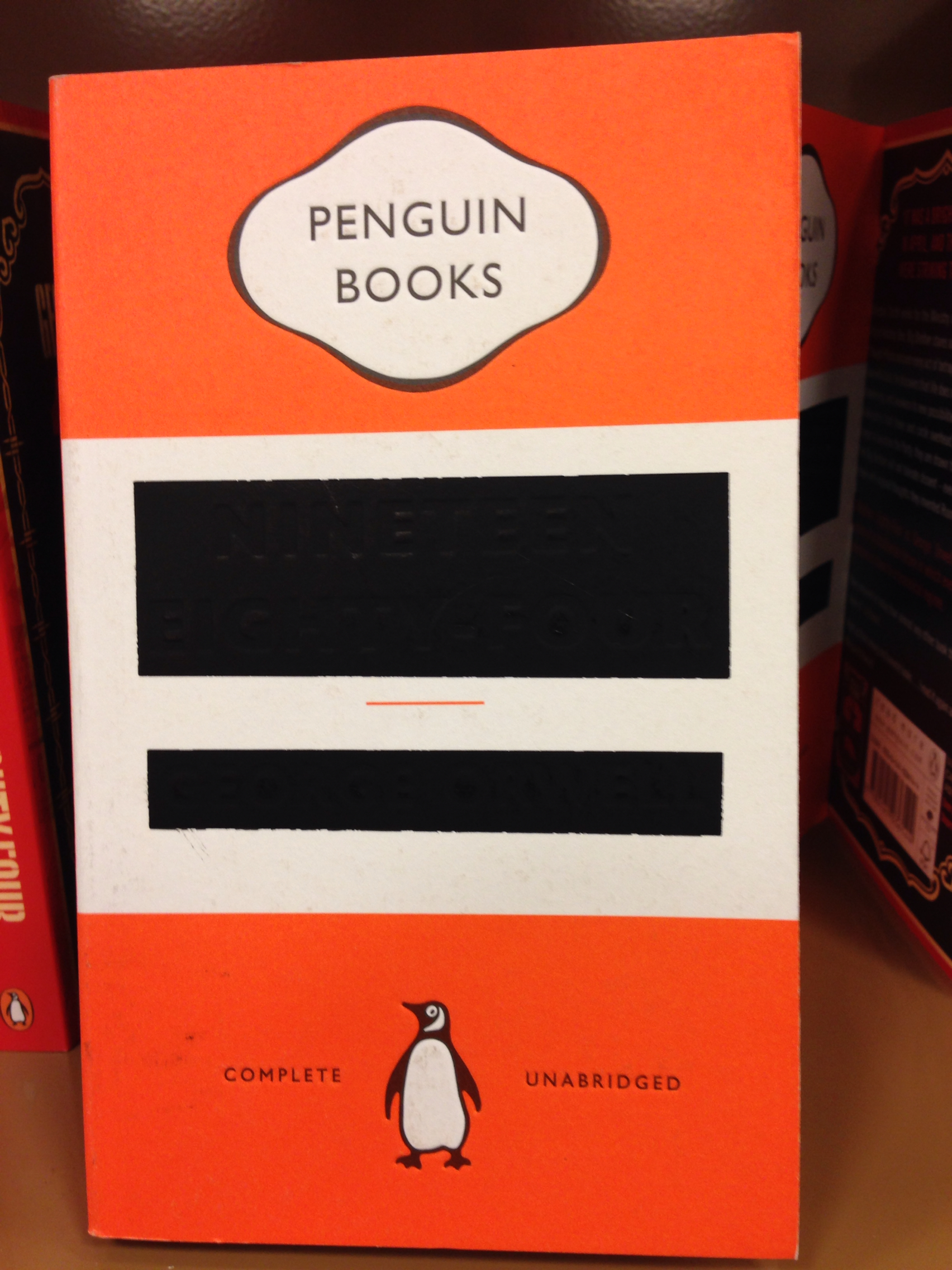 This book jacket uses the classic Penguin design of two balanced bars of orange and minimal text. On this jacket the title and author have been censored which reflects the theme of the book. In case you are wondering the book is Nineteen Eighty Four by George Orwell. An example for the DS106 Design Blitz.